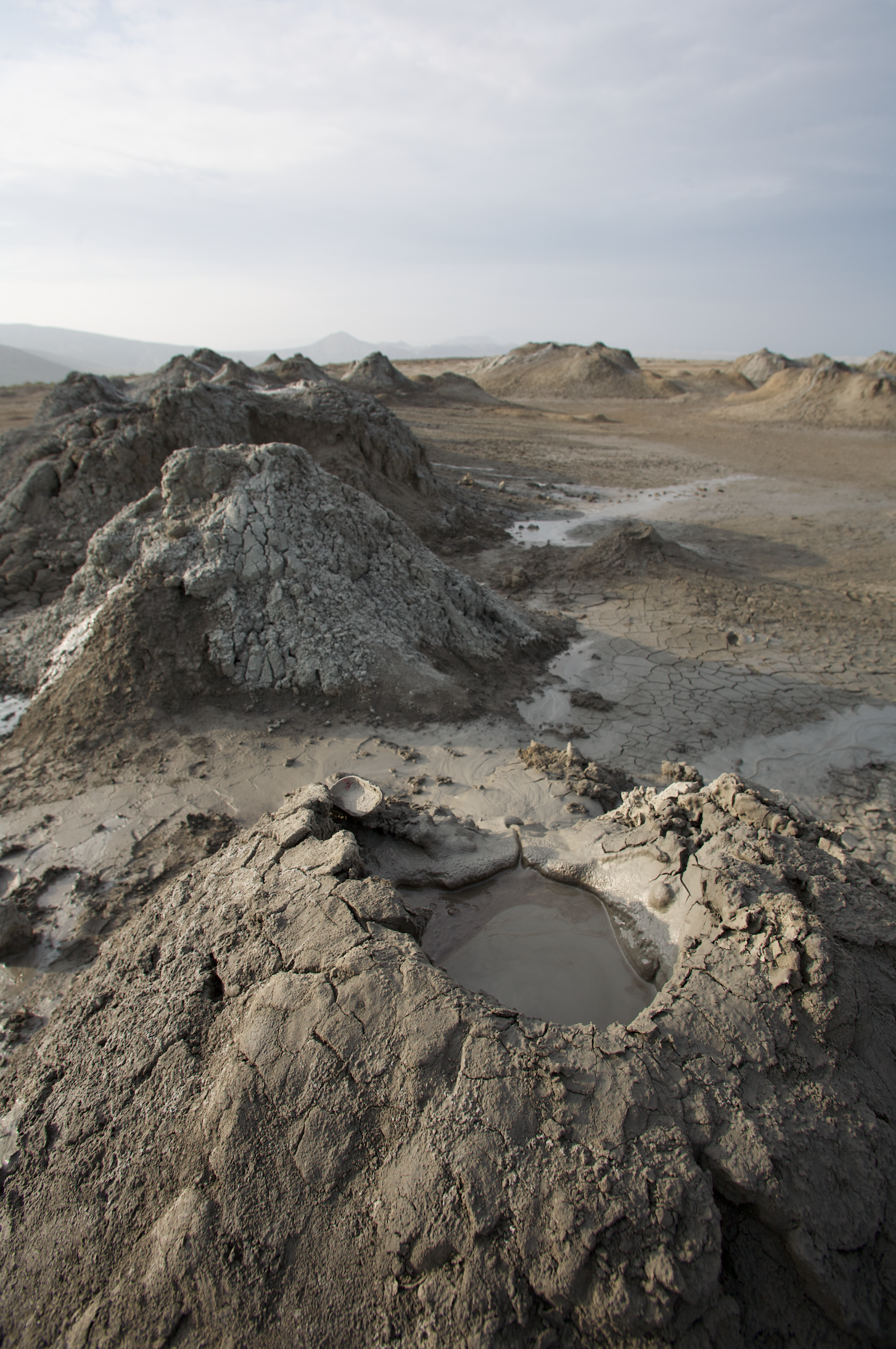 Mud Volcanoes at Gobustan State Reserve